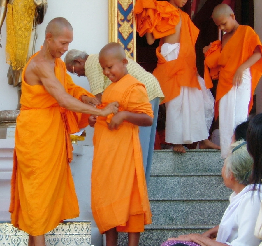 Buddhist priest covers with blanket the outer robe of a Theravada Buddhism priest to a new Theravada Buddhism novitiate ordains in Ban Khung Taphao, Khung Taphao subdistrict, Mueang Uttaradit, Uttaradit Province, Thailand.